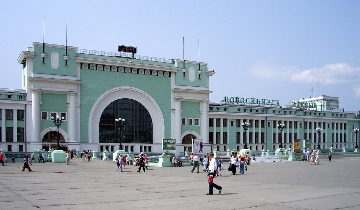 The vauxhall in Novosibirsk city at Garin-Mikhailovsky Square. A station of the Trans-Siberian railway.